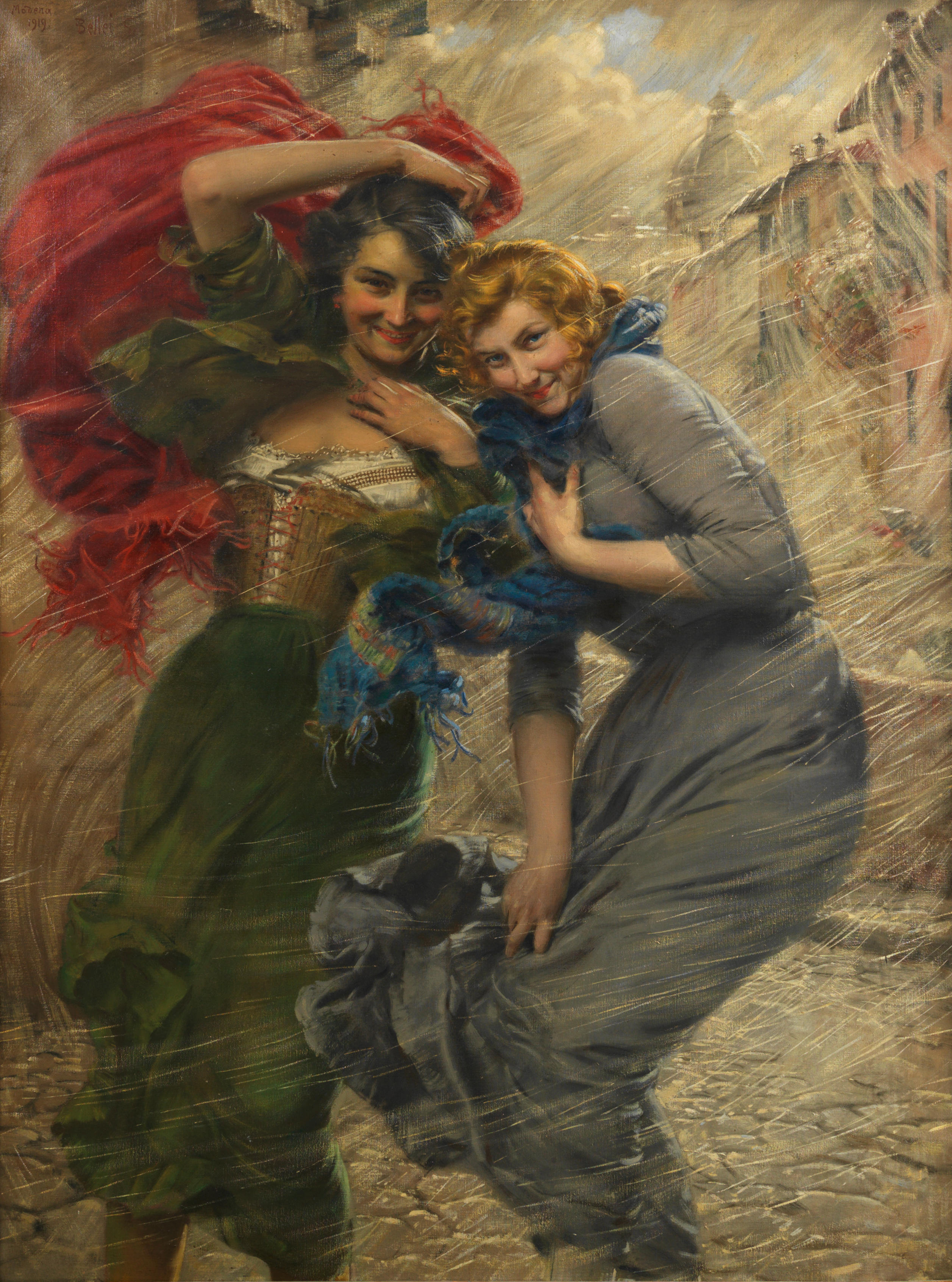 Giornata di pioggia (Rainy day) oil on canvas 151.5 x 111 cm signed t.l.: Modena / 1919. Bellei G.